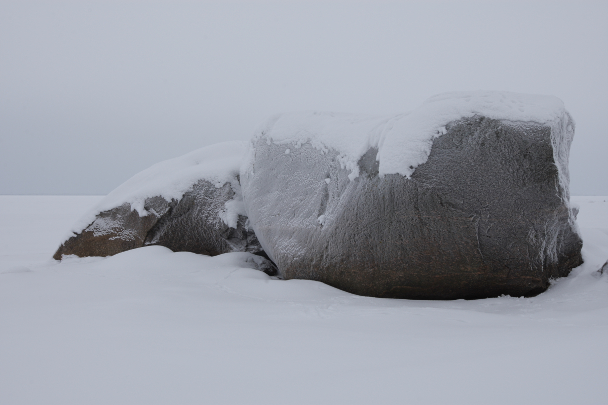 Nääri Stones, Lääne County, Estonia